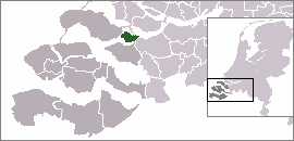 Location of the former island Sint Philipsland